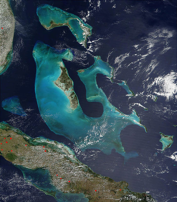 Clear skies and calm waters allowed MODIS to capture this stunning image of the Bahamas and Cuba on March 16, 2002. In the image's centre, Andros Island is surrounded by the bright blue halo of Great Bahama Bank. The Great Bahama Bank is a coral reef limestone platform that was slowly inundated by rising sea levels between 10,000 and 2500 years ago, as the last ice age glaciers were melting.